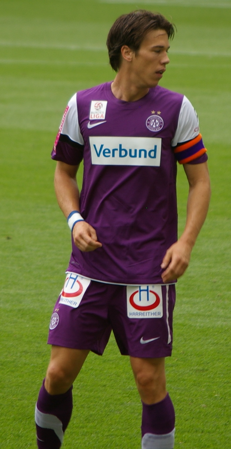 striker FK Austria Wien